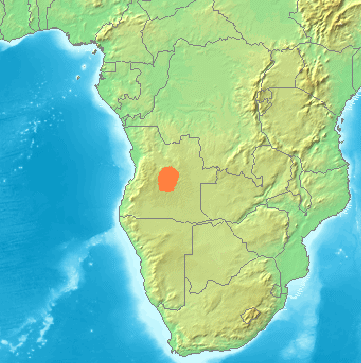 Locator maps for mountain ranges , Bié (Angola)